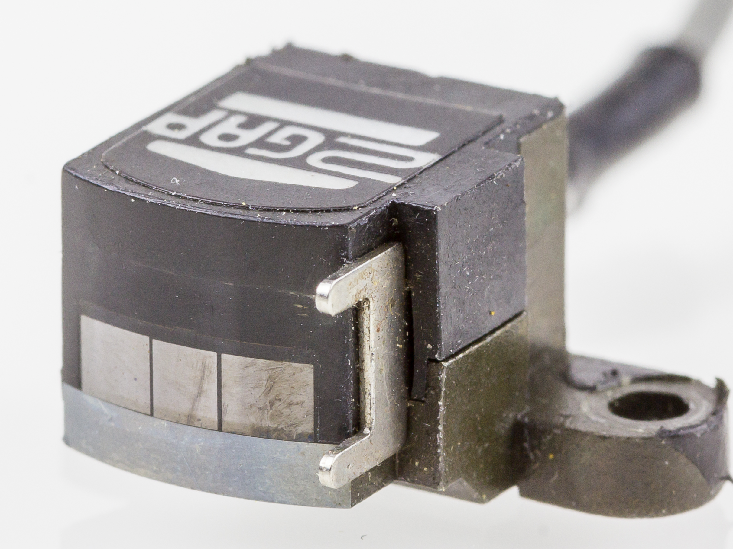 JVC KD-A22 - Erase head, separated from device